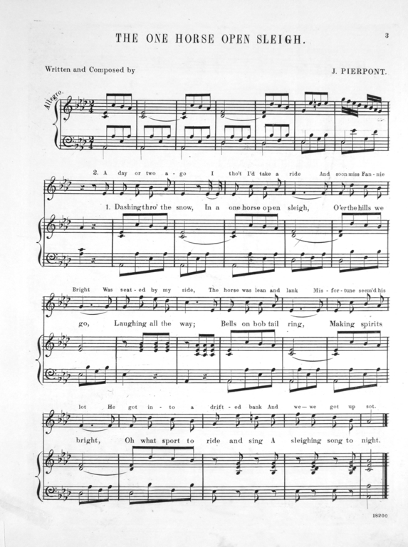 Musical notation of "One Horse Open Sleigh", pg 1